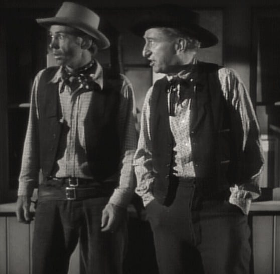 Hank Worden (left) & Olin Howland in Angel and the Badman - cropped screenshot